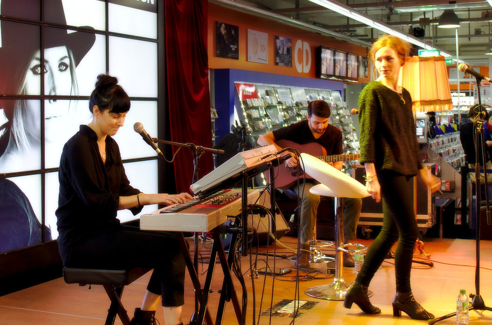 Nina Persson in Hamburg